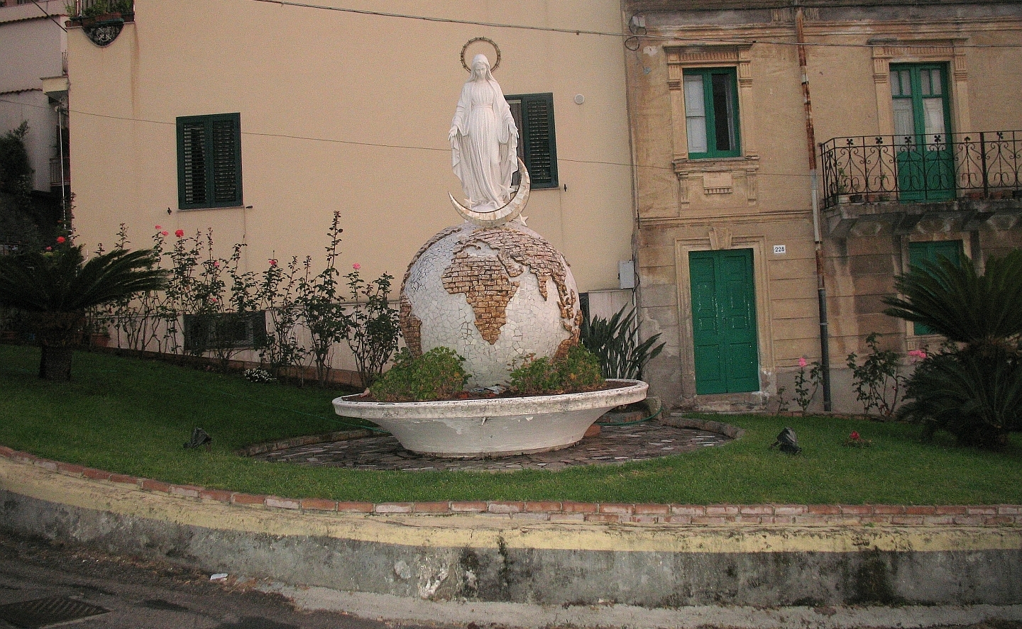 La madonna sul globo terrestre